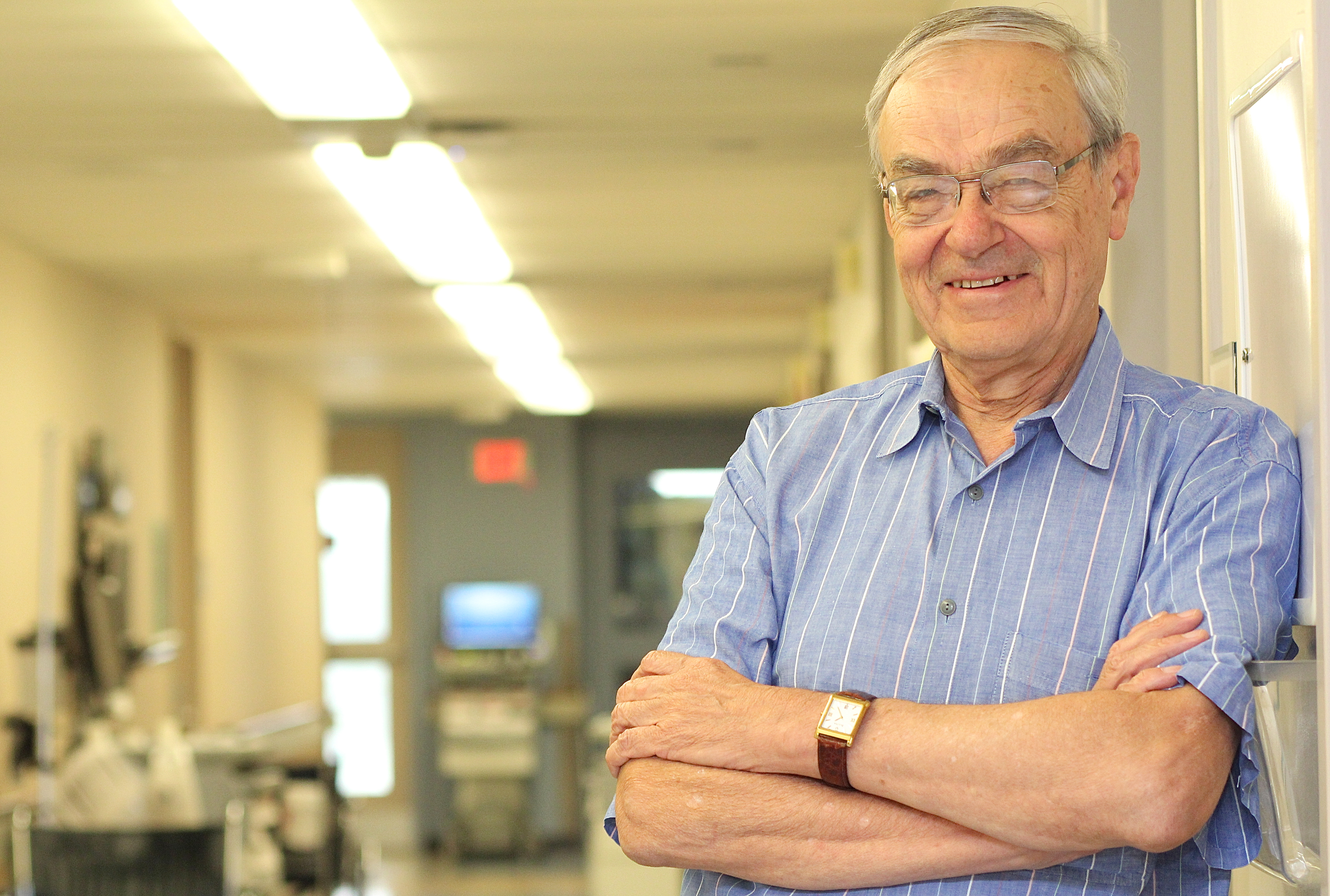 Dr. Vladimir Hachinski. Photo by Paul Mayne, courtesy of Western News.